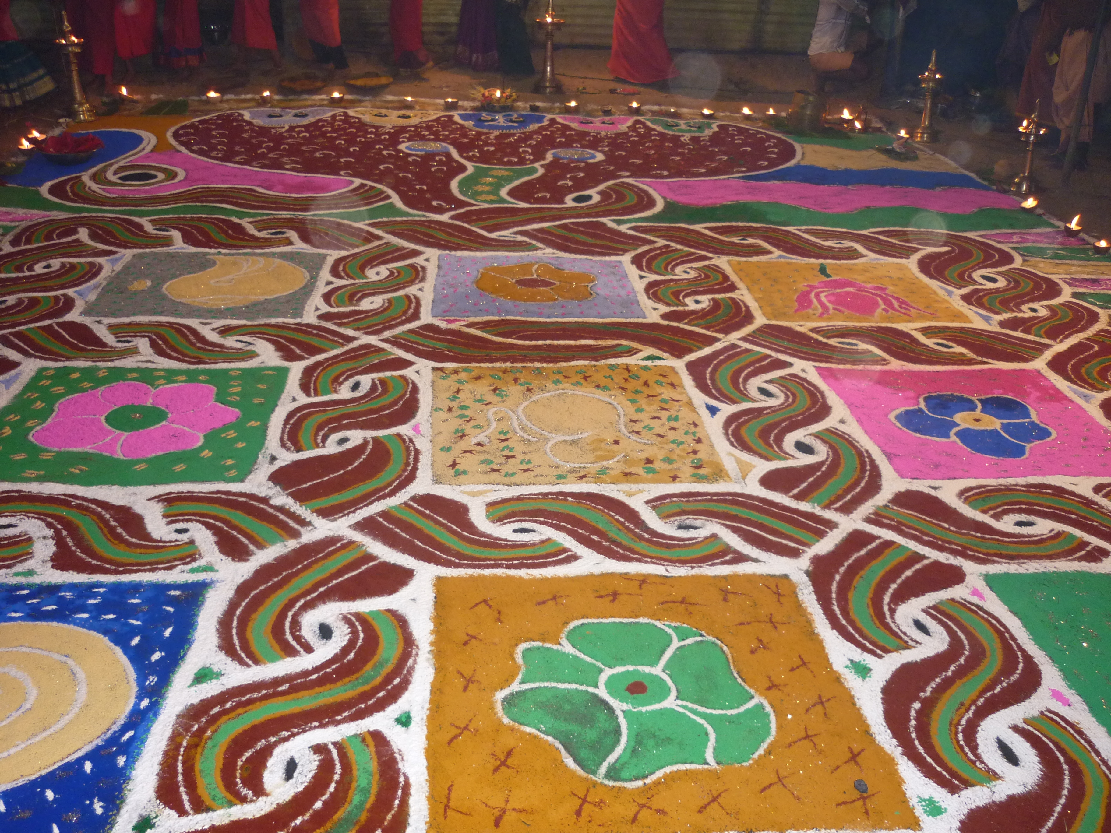 kalam 1